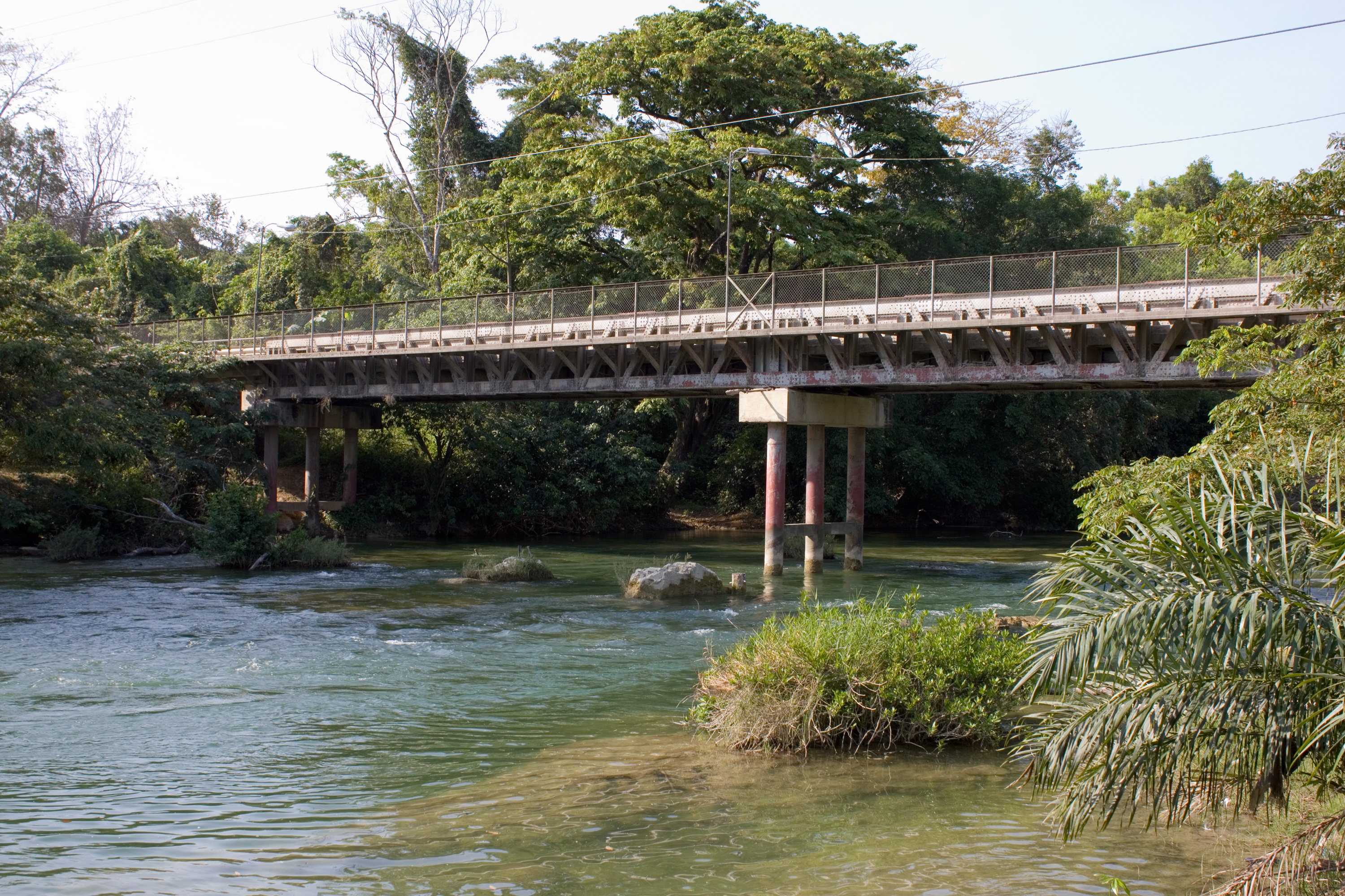 The Salvador Fernandez Bridge in Bullet Tree Falls, Belize